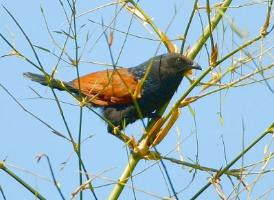 Lesser Coucal from Bhadra Tiger Reserve, Karnataka, India poor quality file, only uploading because there is no infobox image. hopefully, someone will upload a better quality image. :)